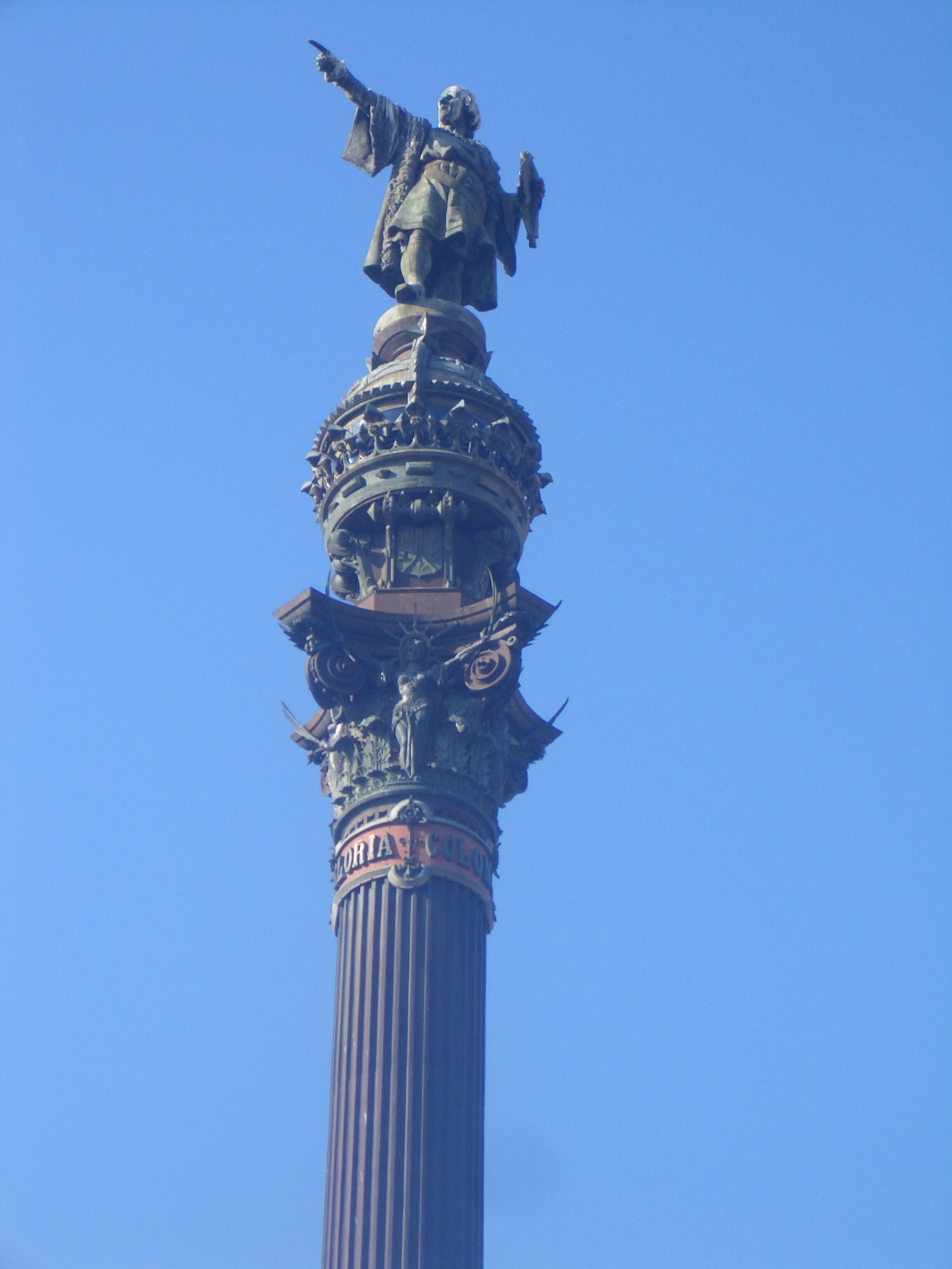 Columbus statue, Barcelona, Spain.